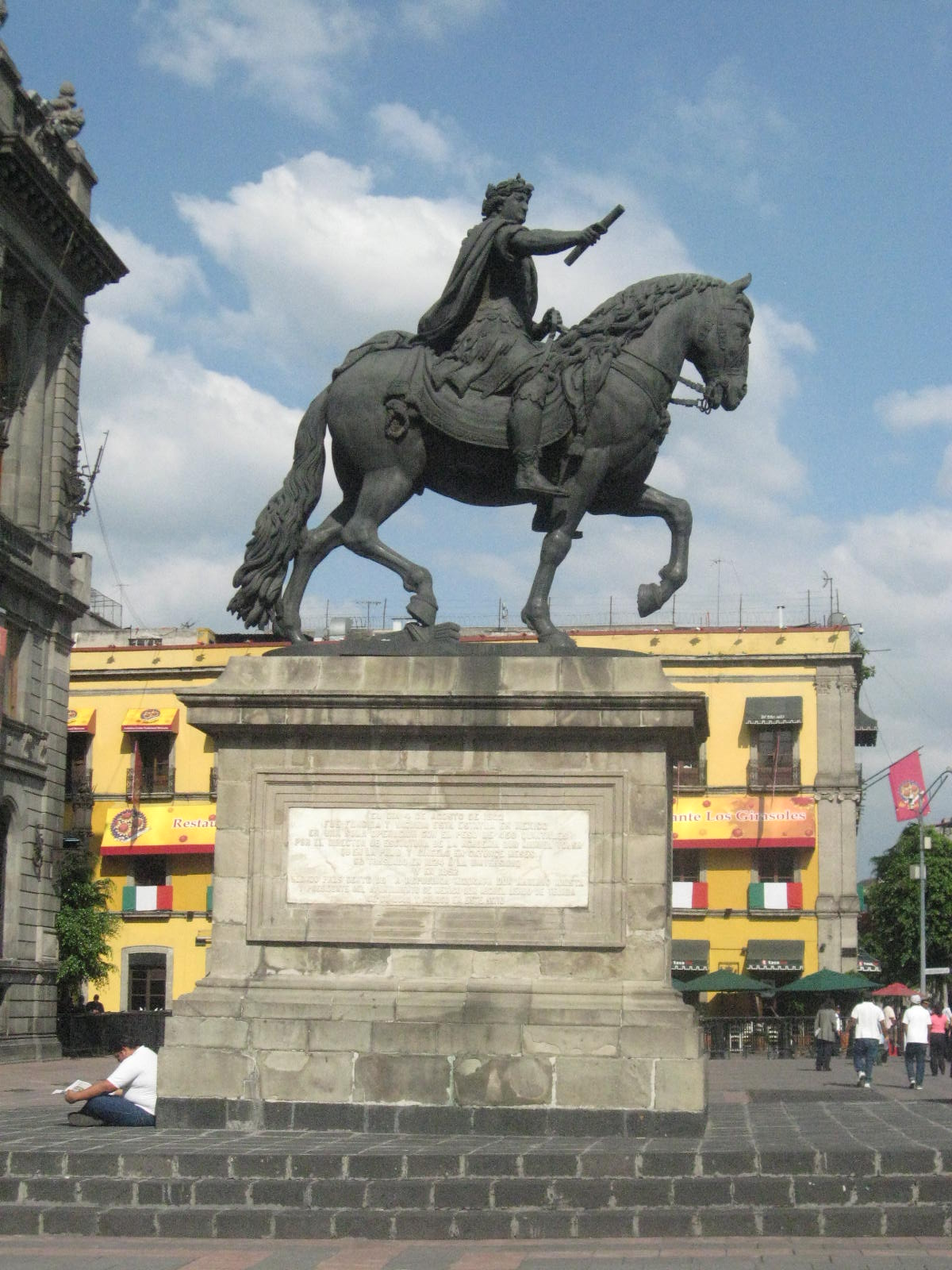 Statue of King Carlos IV of Spain, Manuel Tolsá in front of the Museo Nacional de Arte in Mexico City